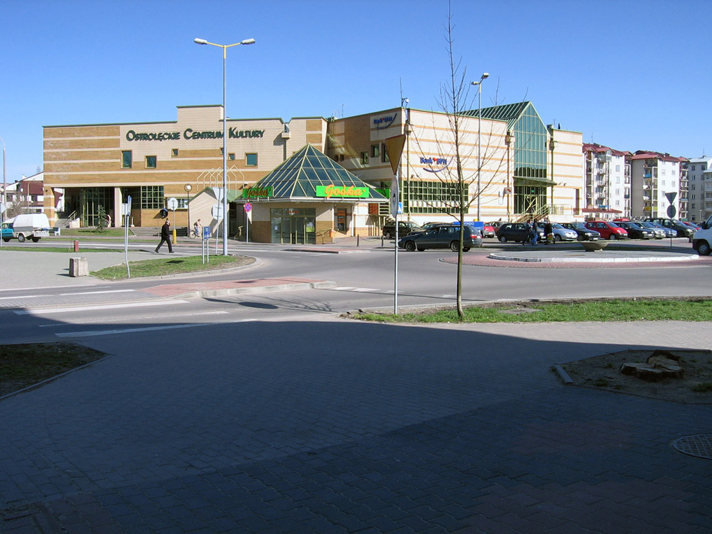 City of Ostroleka (Poland), Prince Janusz's Rondo.